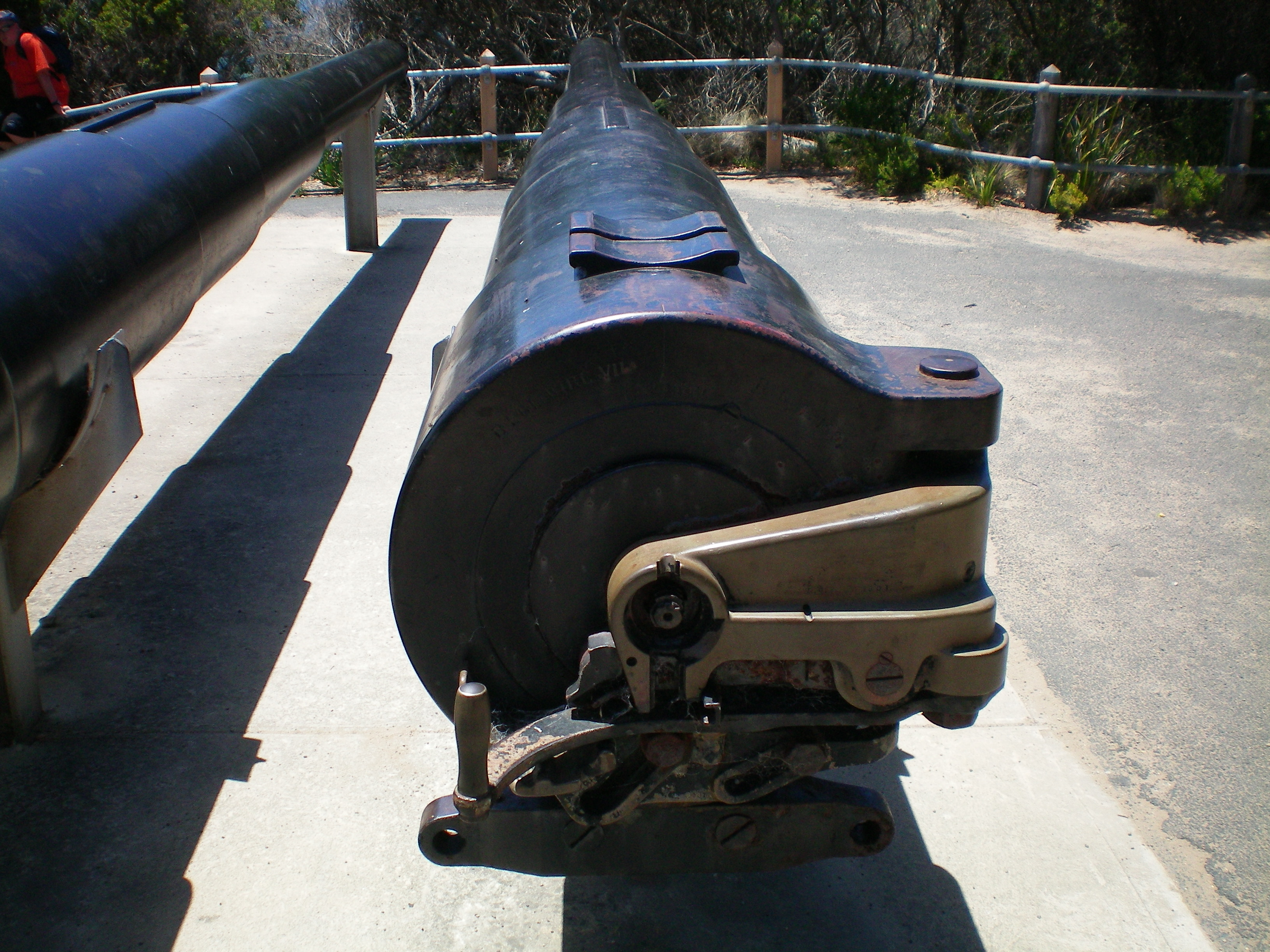 Photograph of preserved BL 6 inch Mk VII gun barrels. In the middle of the image is barrel 1489 which fired the first Australian shot of World War I. To the left is barrel 1317 which fired the first Australian shot of World War II. At Point Nepean, Victoria, Australia.